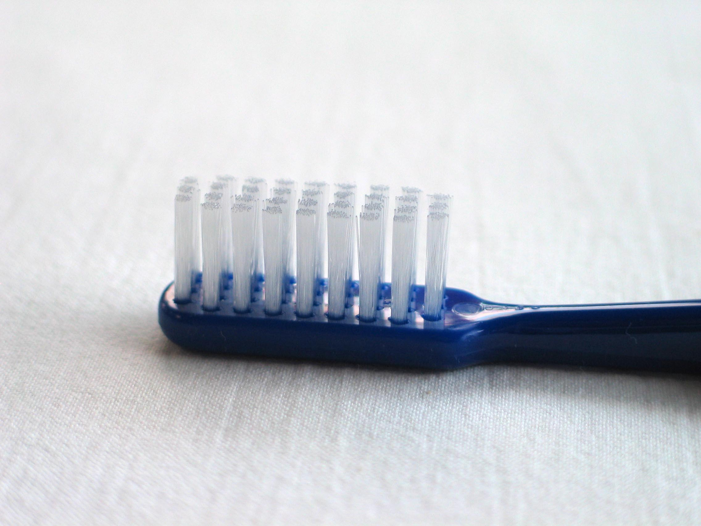 Bristles on a Toothbrush, photo taken in Sweden.